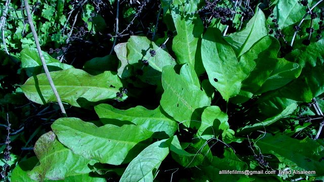 نباتات برّية سورية تؤكل